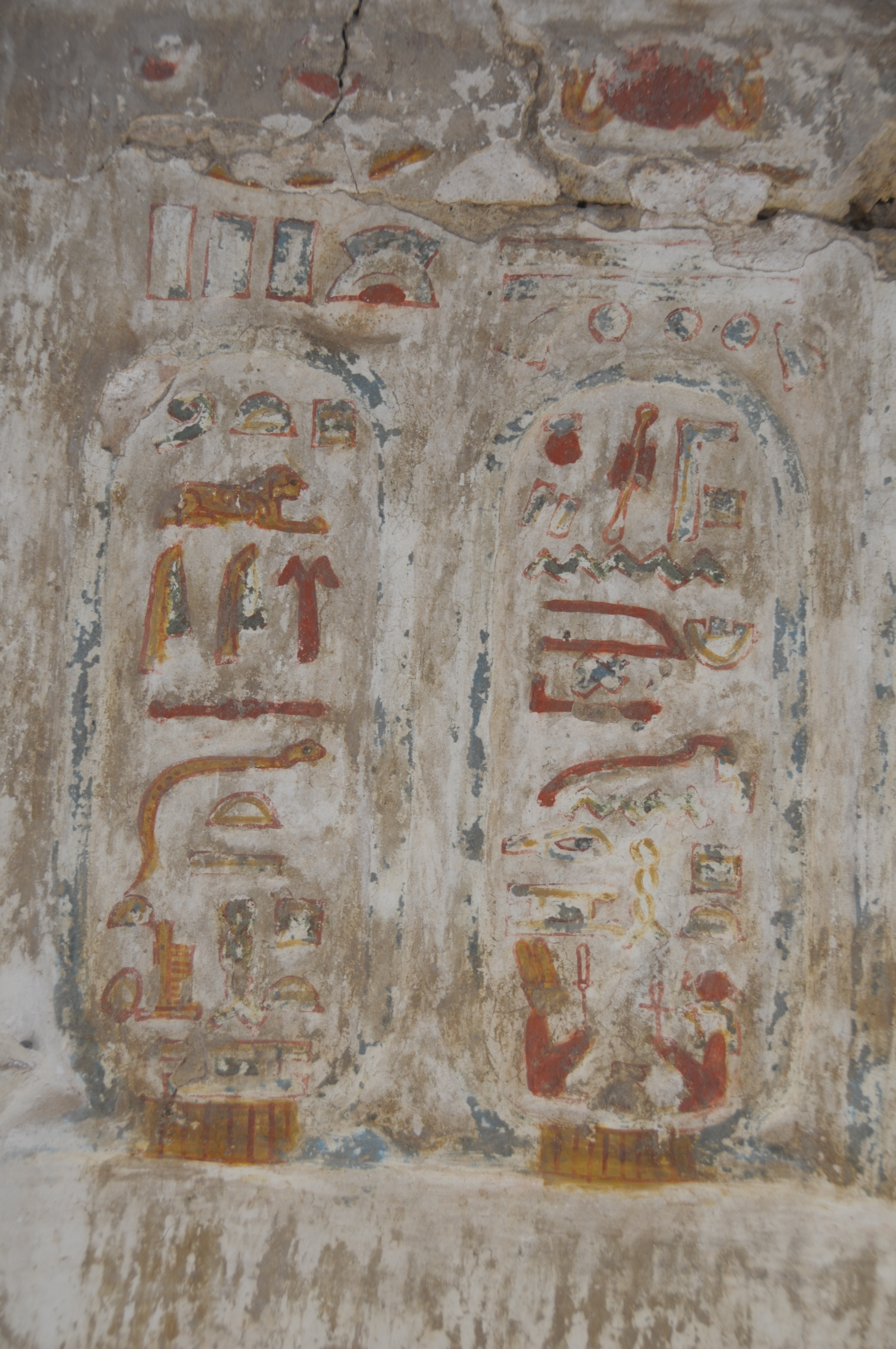 Cartouche of king Ptolemy XII (room E3) in the Athribis temple in Sohag, Egypt